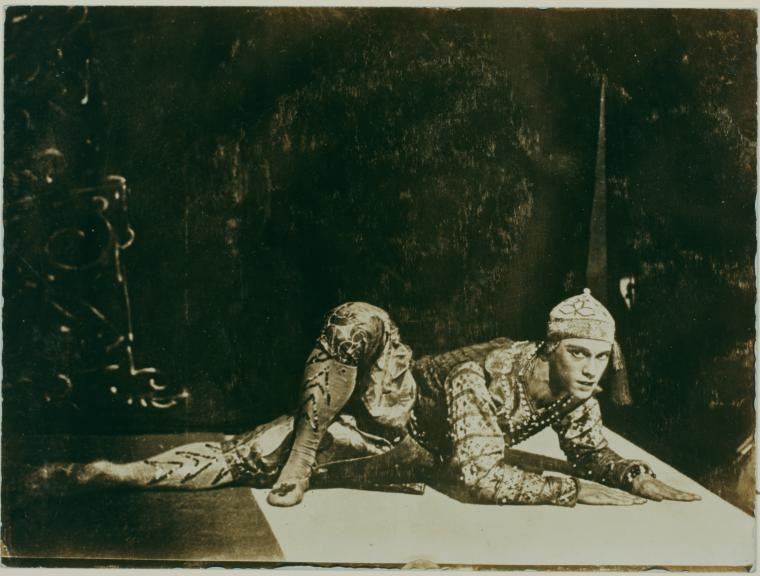 Nijinsky in "les Orientales", photographed by Eugène Druet, Roger Pryor Dodge Collection